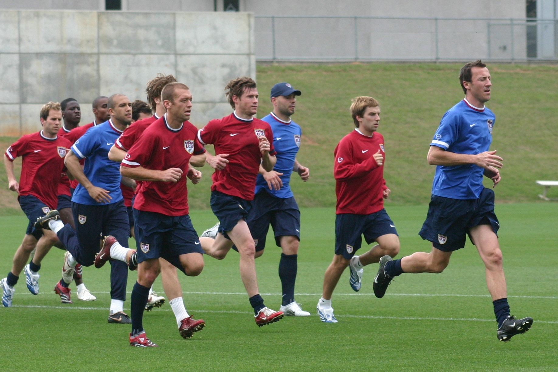 Members of the United States men's national soccer team during a practice session prior to the 2006 World Cup. L-to-R: Eddie Lewis, Eddie Johnson, Eddie Pope, Tim Howard, (not visible), (not visible), Jimmy Conrad, Brian McBride, Marcus Hahnemann, Bobby Convey, team coach (unidentified).